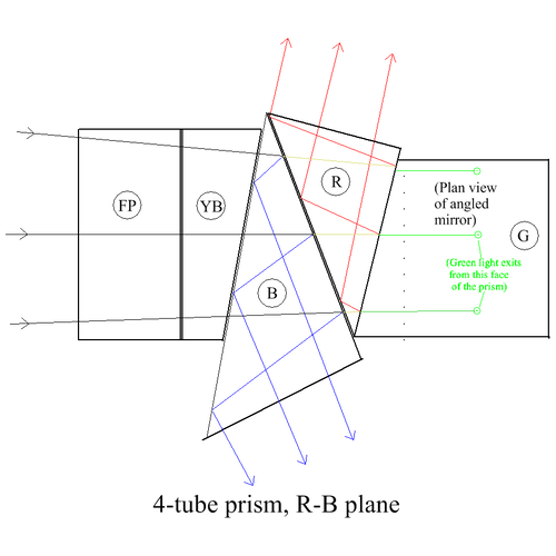 The diagram shows the ray diagram for the 4-tube prism, showing colour selection, but in the RB plane only Other information It is to be added to the article on the EMI 2001